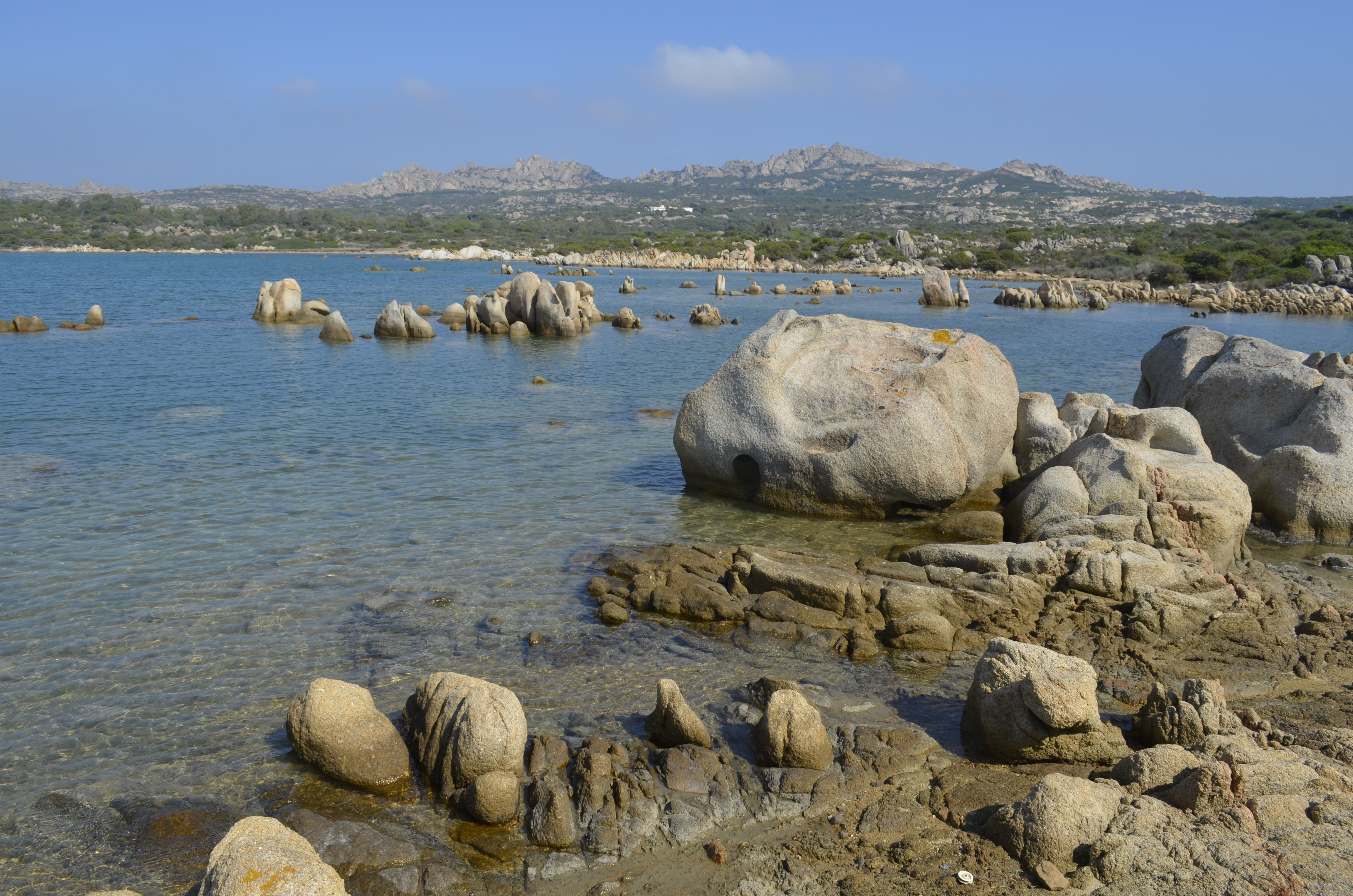 Granitic rocks on Caprera island